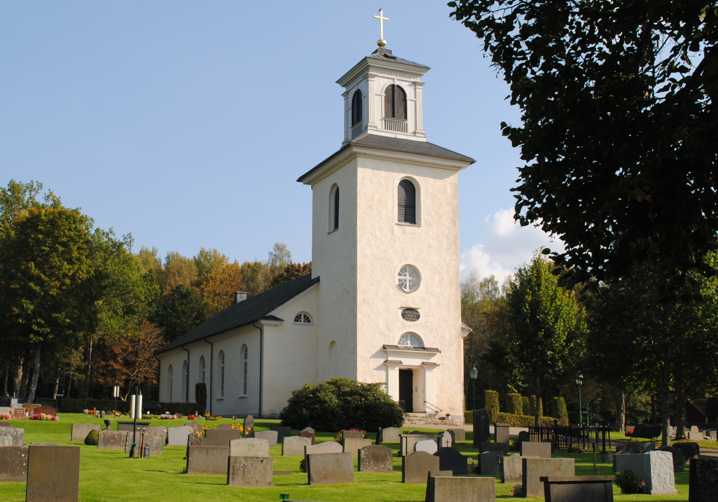 Södra Sandsjö Church.The church building was built in 1836-1837 in empire style by architect Samuel Enander. The Church was consecrated by Bishop Esaias Tegnér 9 september 1838.